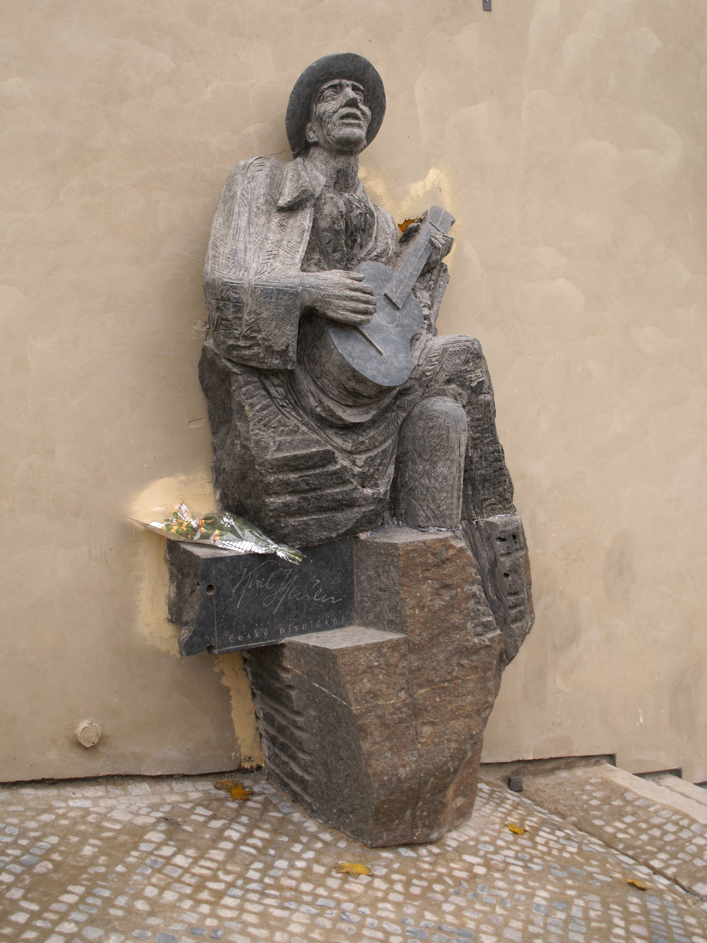 Sculpture of Czech musician Karel Hašler; located on the Prague’s Old Castle Stairs, inaugurated 2009-OCT-31, sculptor Stanislav Hanzík